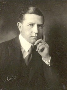 Scan of photo in private family collection.